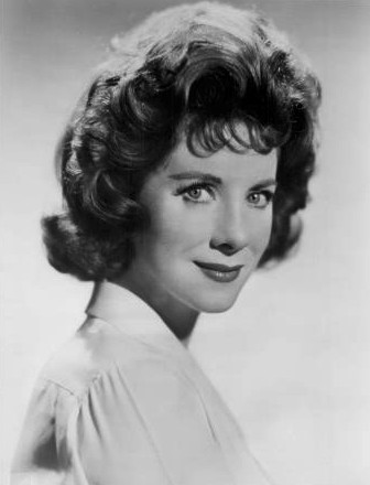 Photo of Irish singer and actress Carmel Quinn.